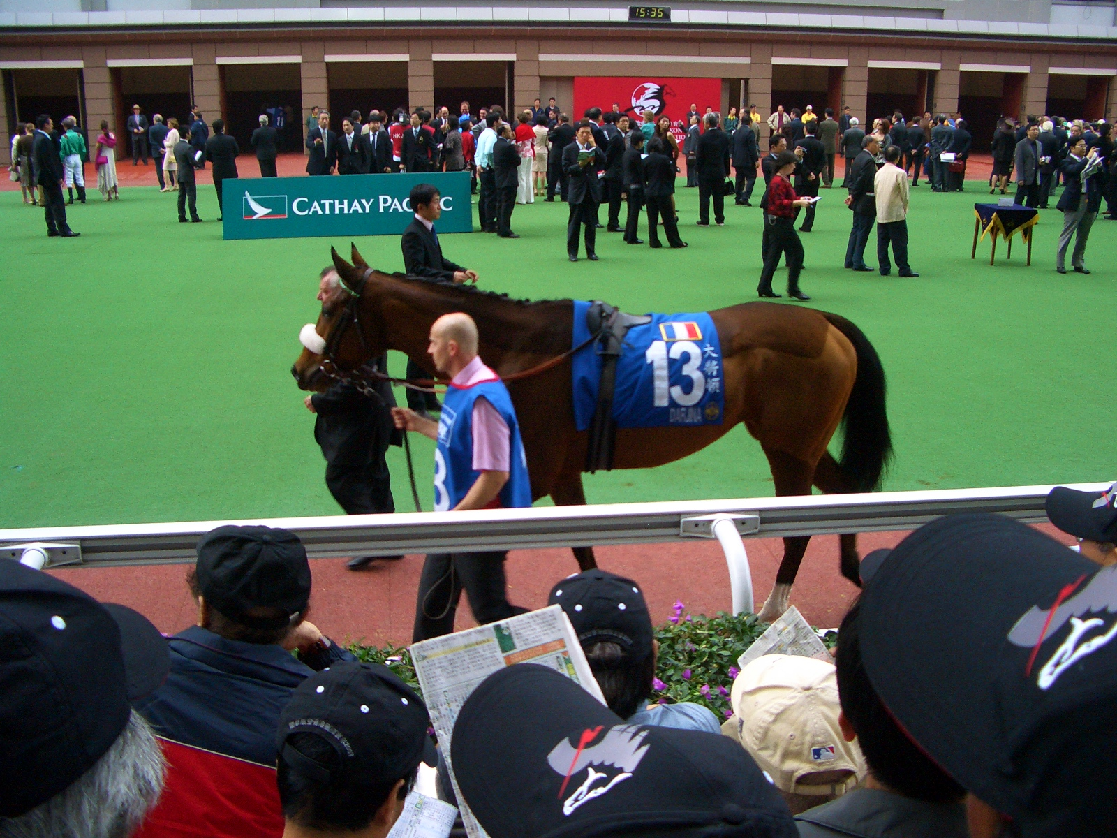 Darjina, French thoroughbred racehorse in 2007 Hong Kong Mile